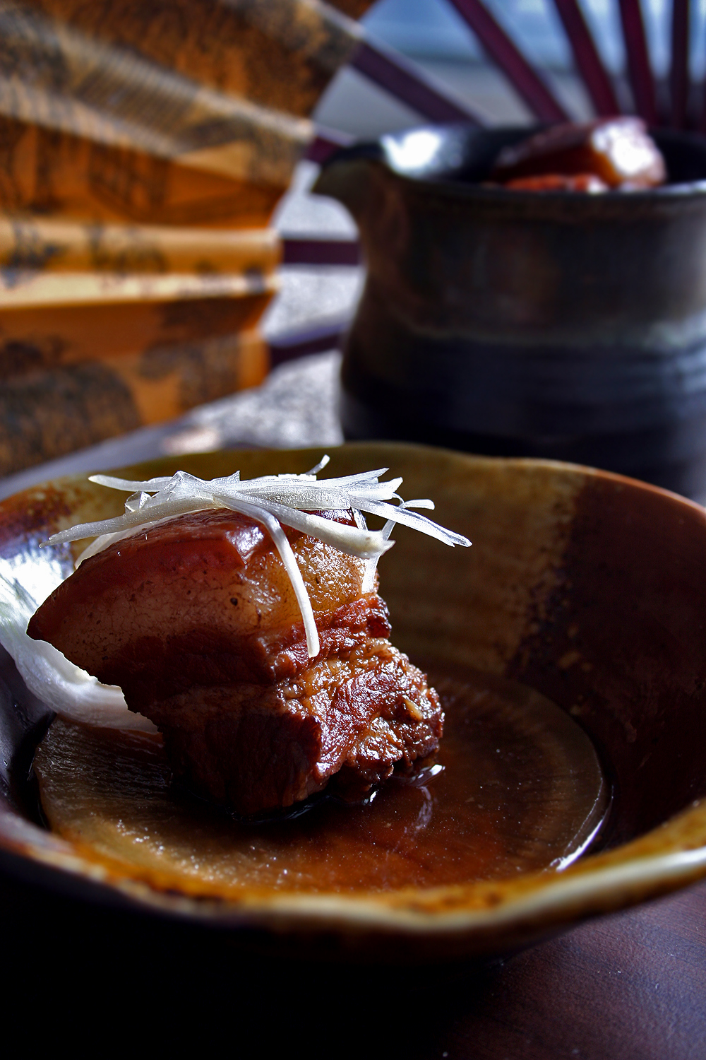 Dong Po Pork